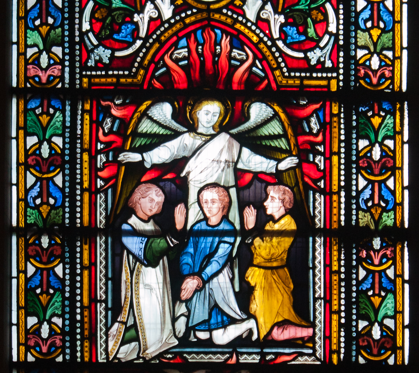 Detail of stained glass window in the west wall of the first bay of the south aisle, depicting Shadrach, Meshach, and Abednego in the fiery furnace, protected by an angel. Cartooned by John Hardman Powell (1827–1895), executed by Hardman & Co.